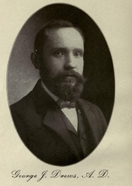 George J. Drews, German American natural hygiene and raw food proponent.